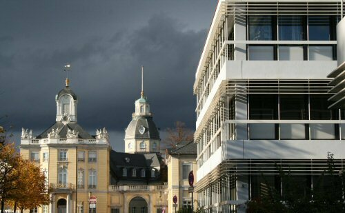 Karlsruhe, Germany, with the Faculty for Business and Economics of the Karlsruhe Institute of Technology on the right and the Karlsruhe Palace on the left.